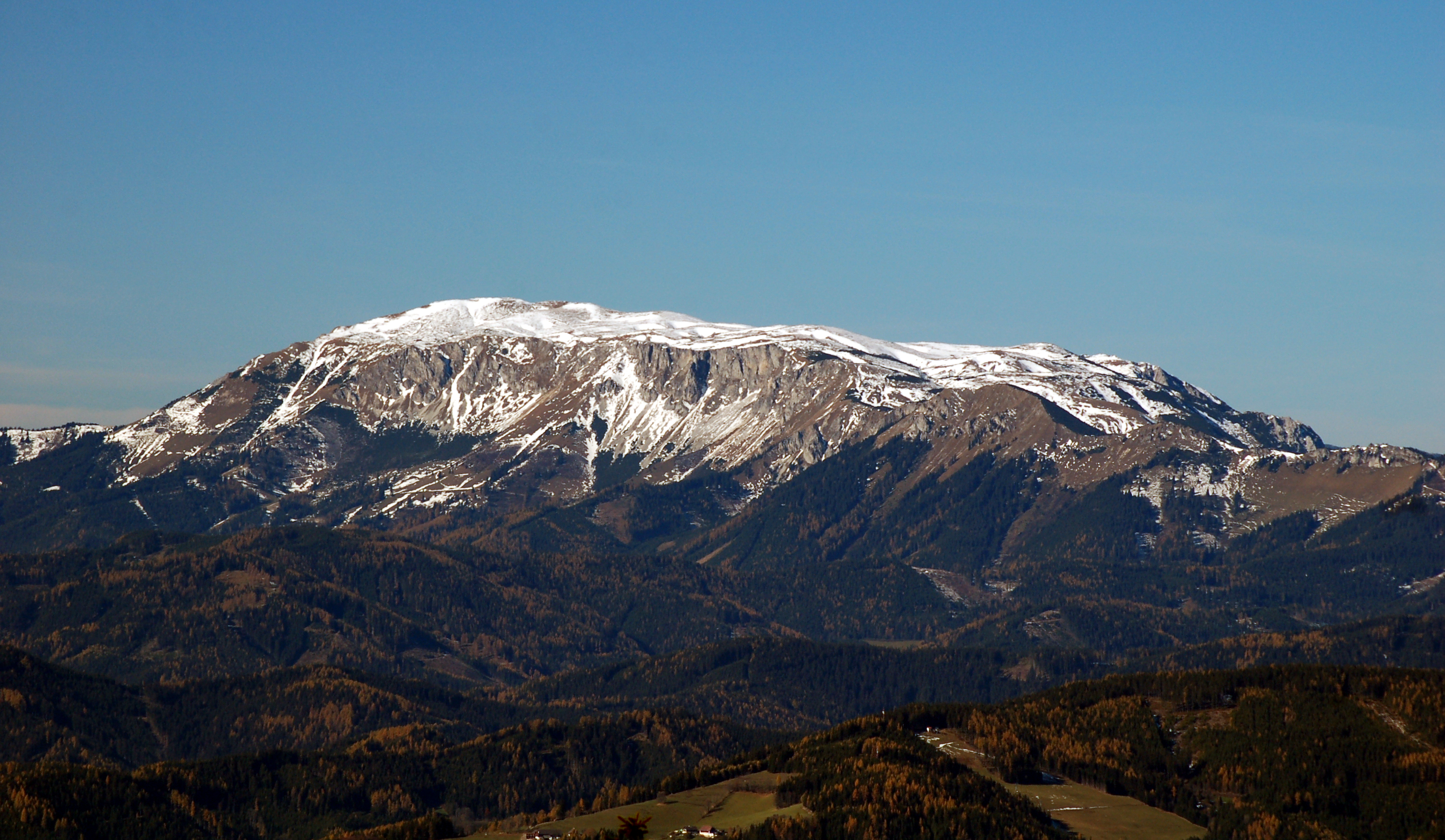 Hohe Veitsch as seen from Pretul, Styria, Austria